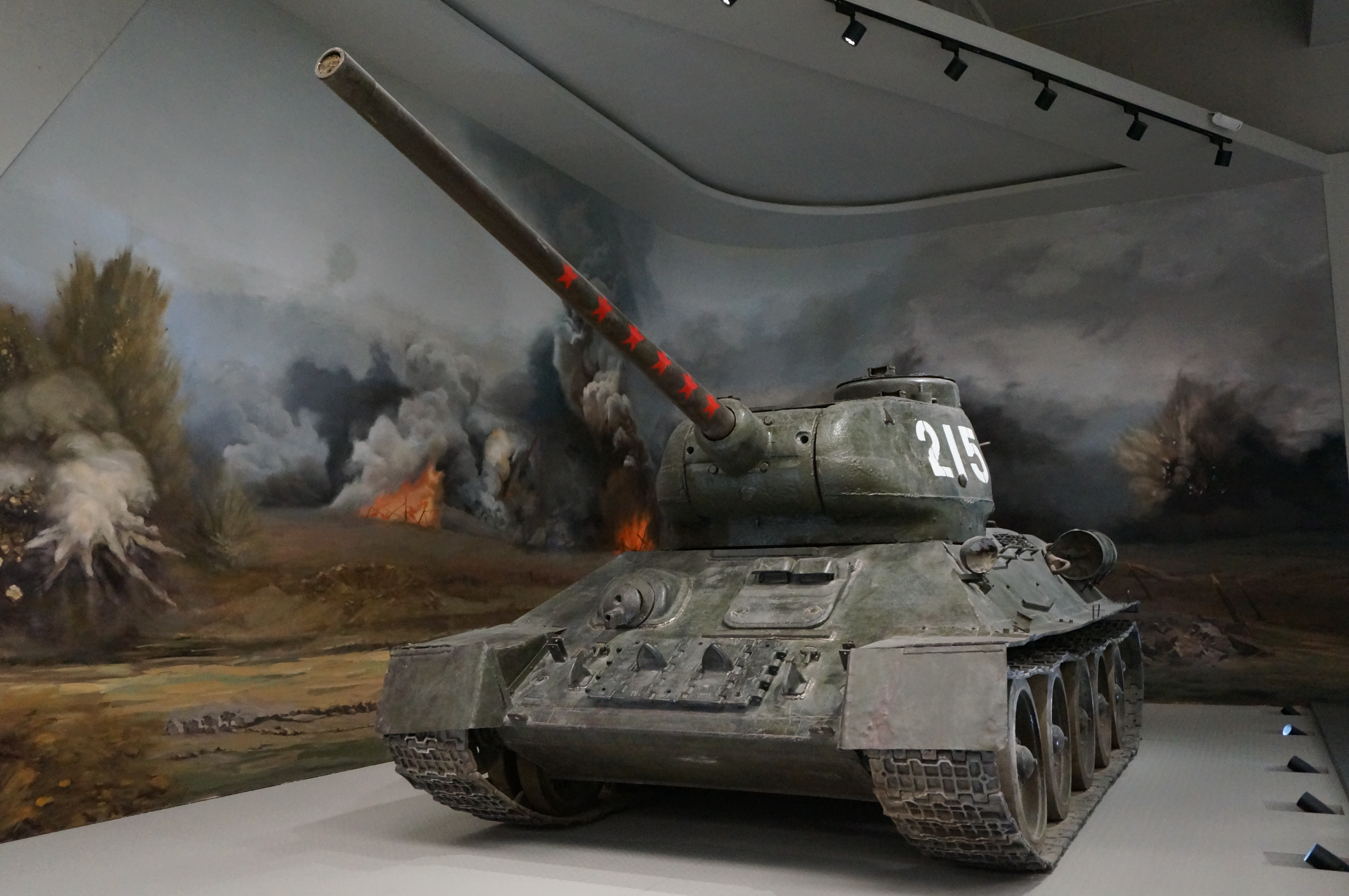 T-34 tank No.215, 4th Company, 4th Tank Regiment, 2nd Tank Division of the People's Volunteer Army(PVA), commanded by Yang Aru, allegedly destroyed four and damaged one U.S. M46 Patton tanks from 6 to 8 July 1953. It also destroyed 20 U.N. bunkers. The tank is now preserved in the Military Museum of the Chinese People's Revolution. The photo was taken on December 3, 2017.